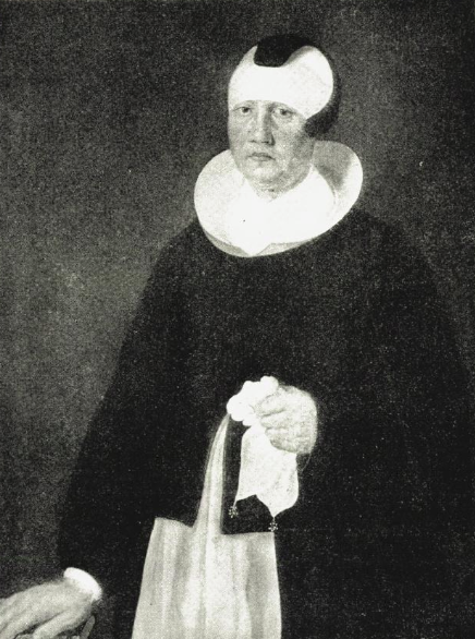 Marthe Jensdatter Ruus, married to first mayor of Christiania (old Oslo), Lauritz Ruus.